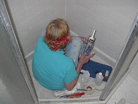 Repairing shower stall with grout applicator